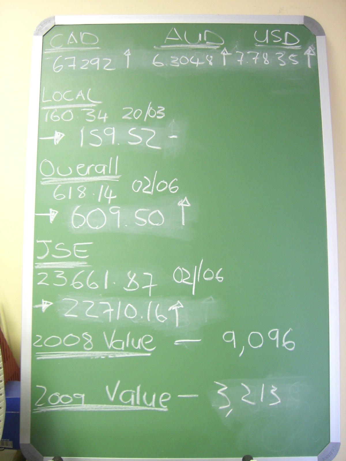 Index board in the Namibian Stock Exchange (NSX)